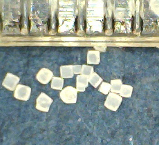 Image taken with a USB microscope of ordinary table salt, sodium chloride. The ruler marks are each one millimeter.